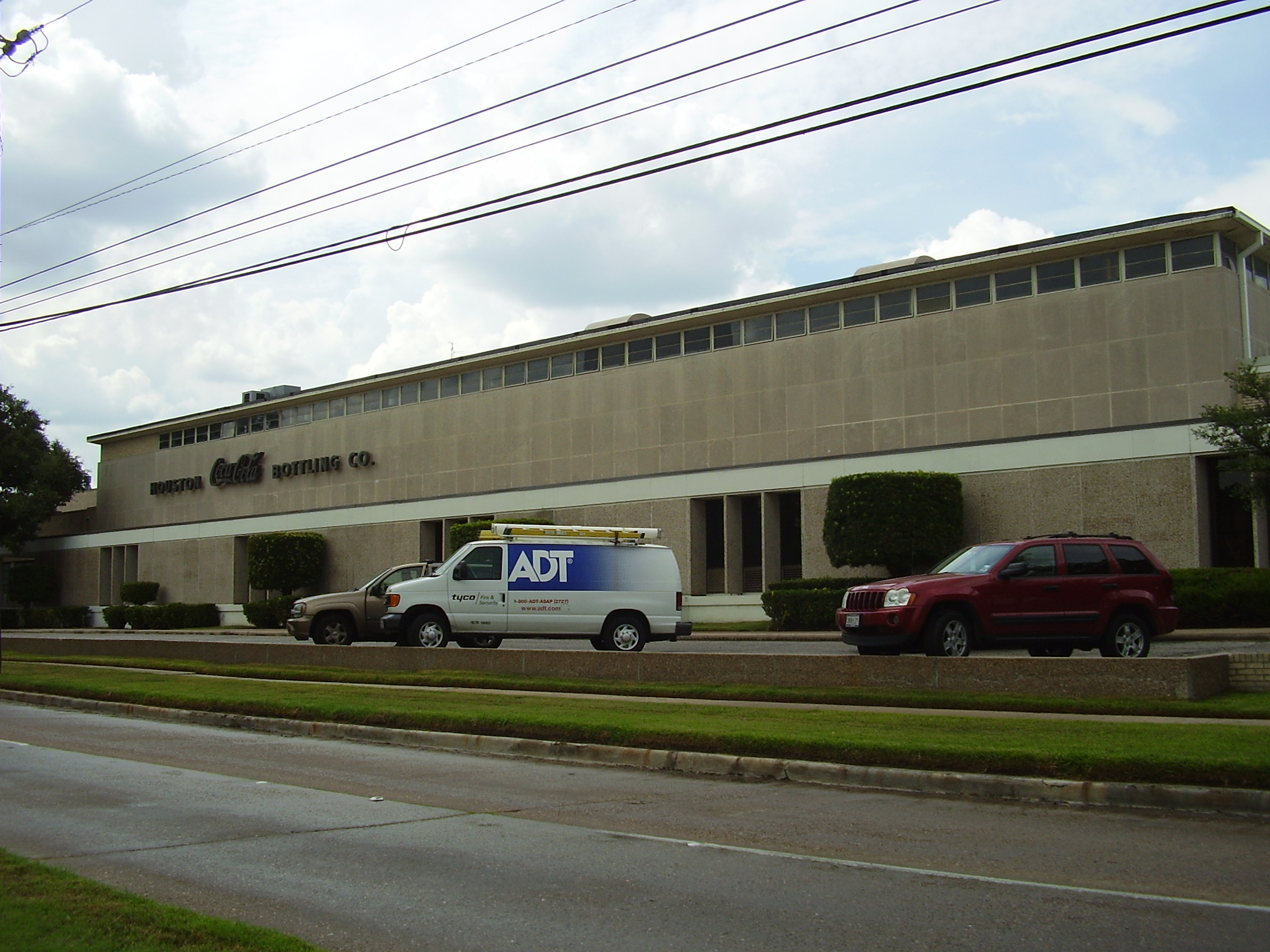 Houston Coca-Cola Bottling Company